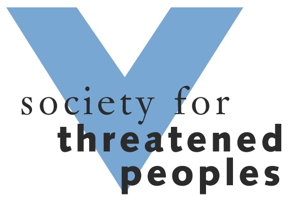 The emblem of the Society for Threatened Peoples